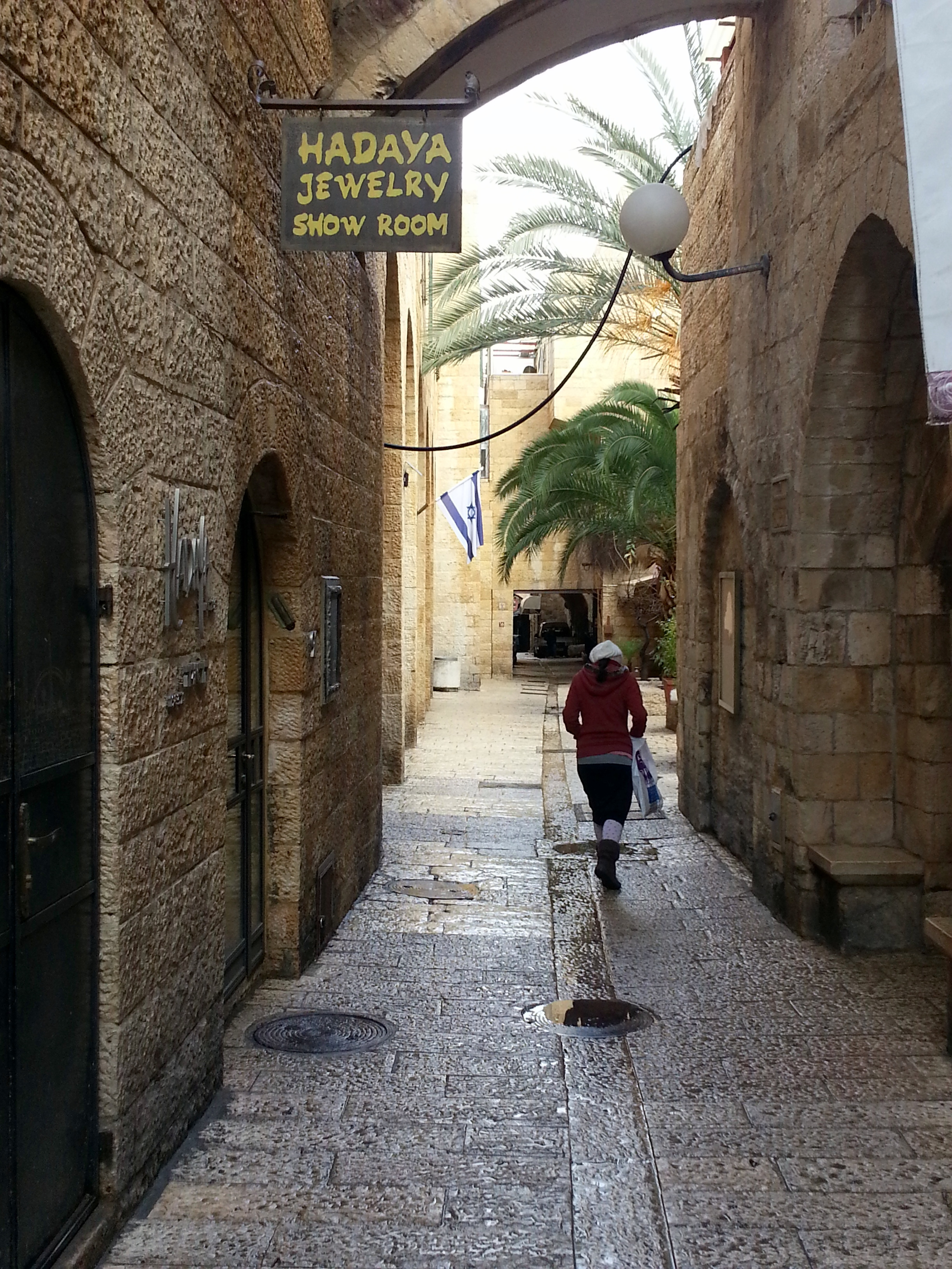 Old part of Jerusalem - Jewish Quarter. Hadaya, One of a kind Jewelry 91 HaYehudim st. Jewish Quarter, Old City Jerusalem. the store was previously on the other side of the street, where is now the entrance of the Hurva synagogue.